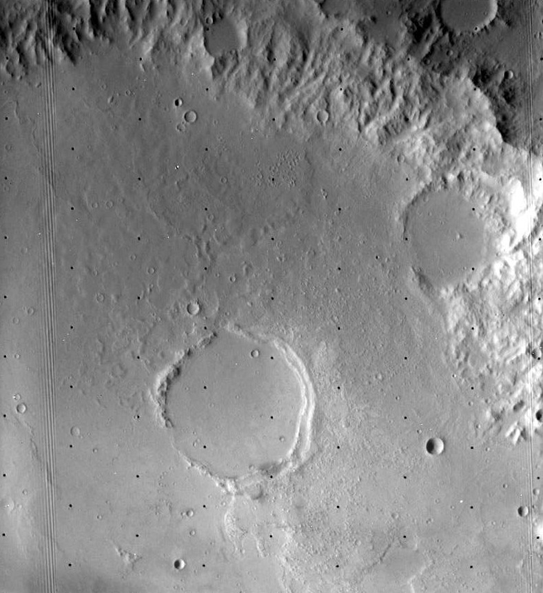 Thira crater (below center), within Gusev crater, on Mars. Viking Orbiter 1 image from camera A (524A55). Clear filter was used for this image. Resolution is about 69 m/pixel. North is in upper left. Emission Angle: 16.4 Incidence Angle: 65.8 Latitude: -14.0 Longitude: 176.8 Phase Angle: 80.6